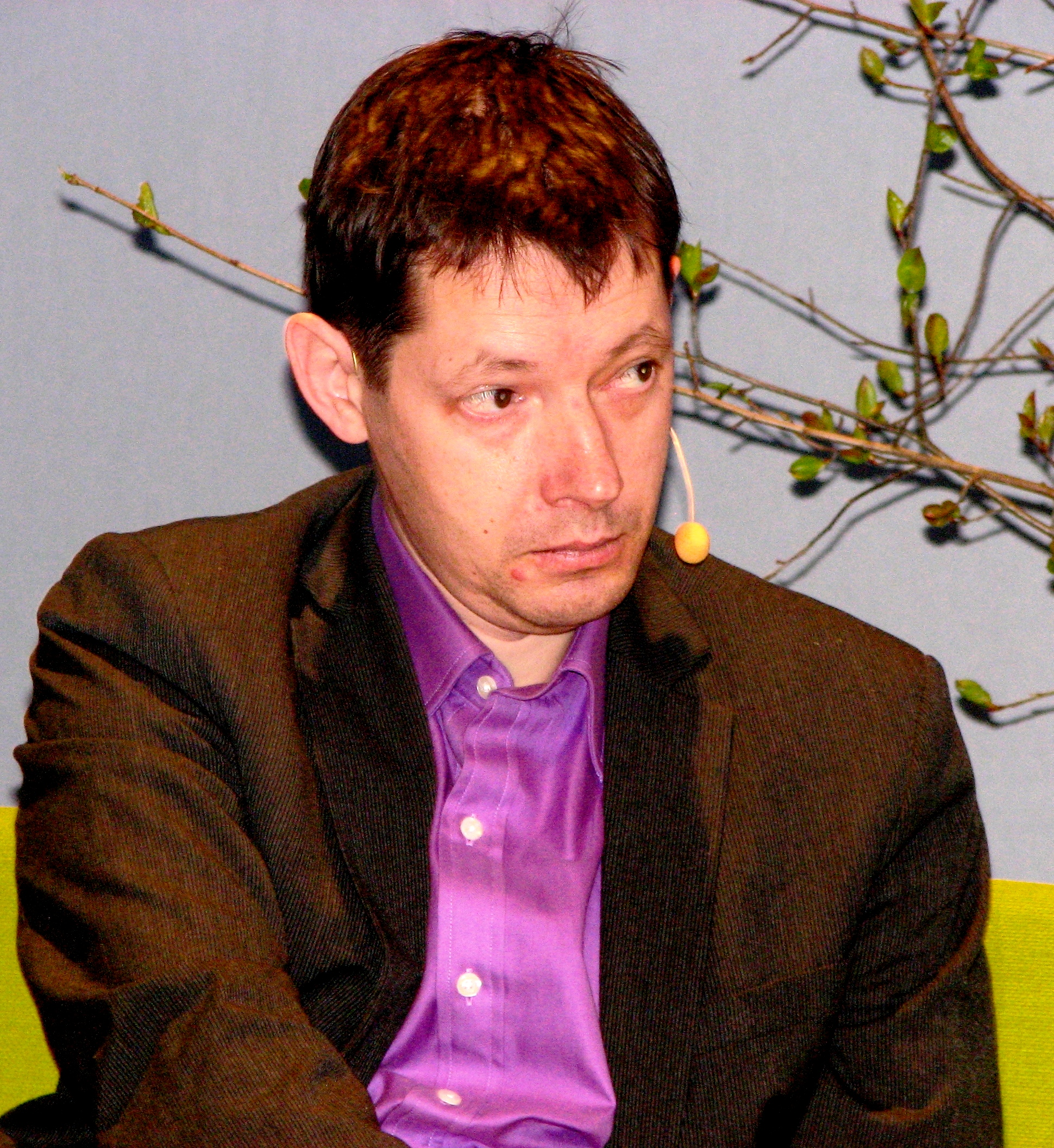 Aavo Kokk performing in Baltic Book Fair 2010